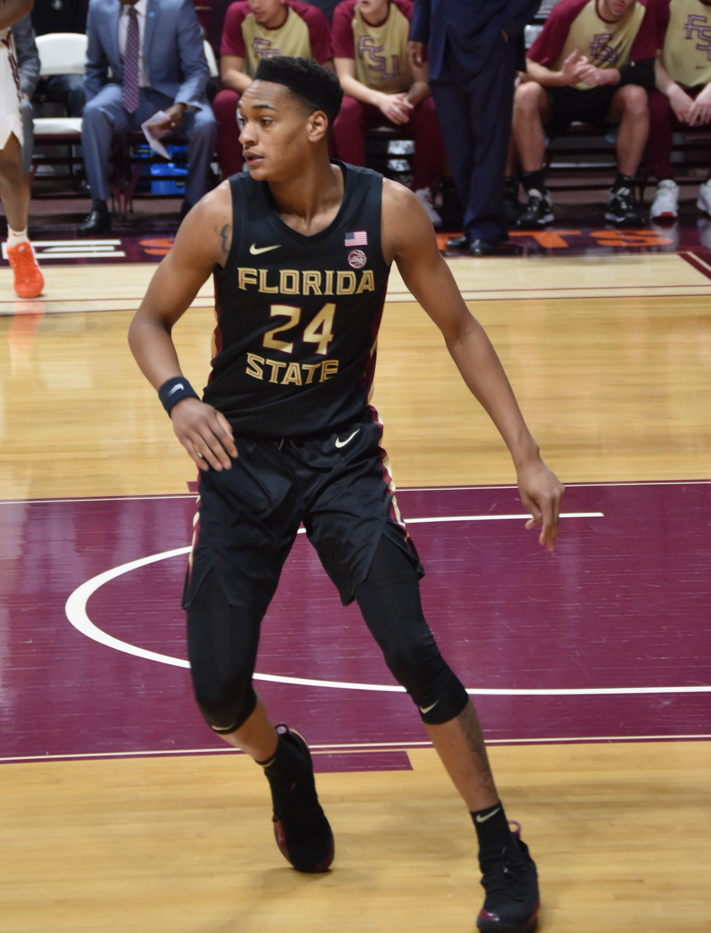 Devin Vassell on the floor for the Seminoles at Cassell Coliseum